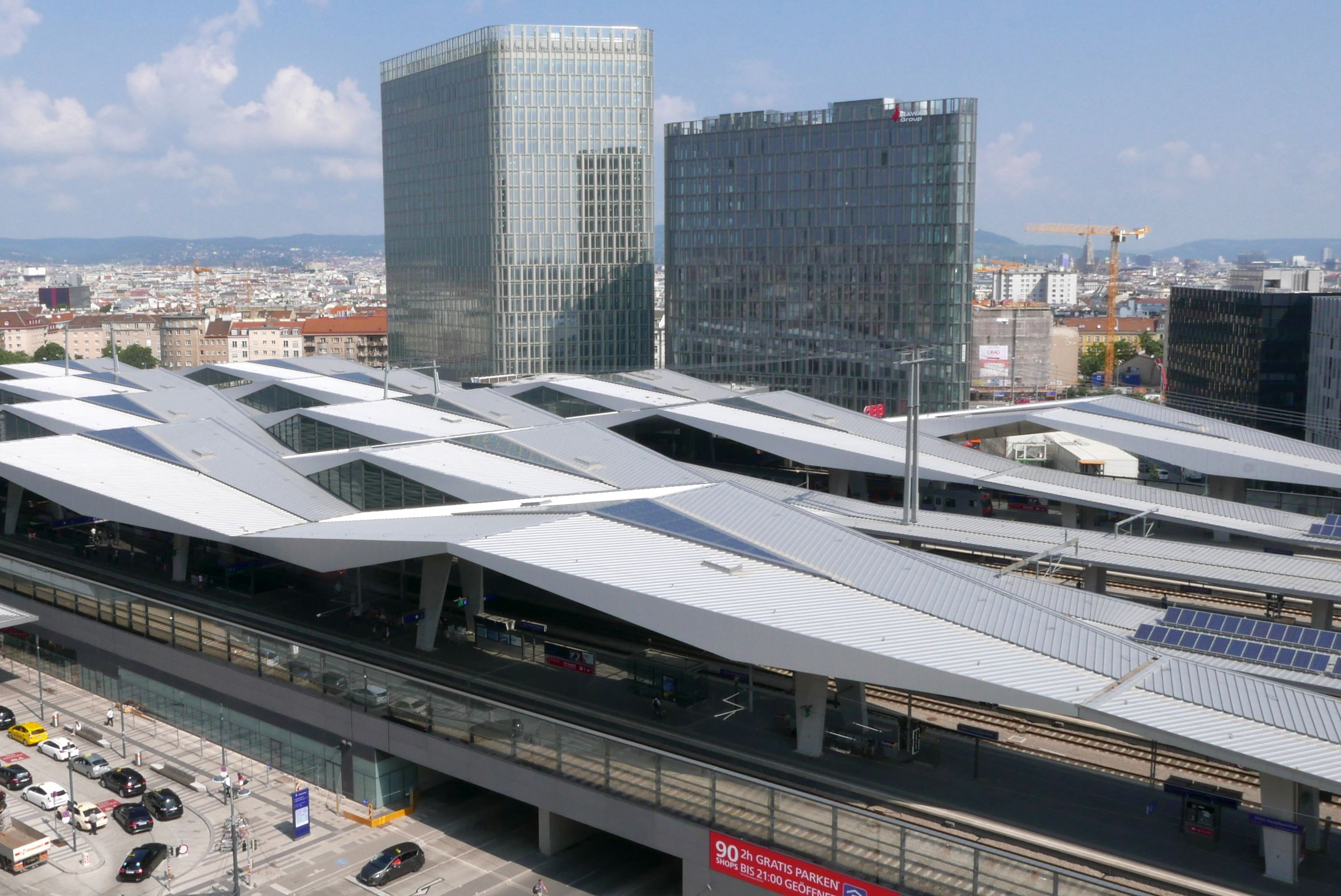 The Icon Vienna behind the main train station in Vienna